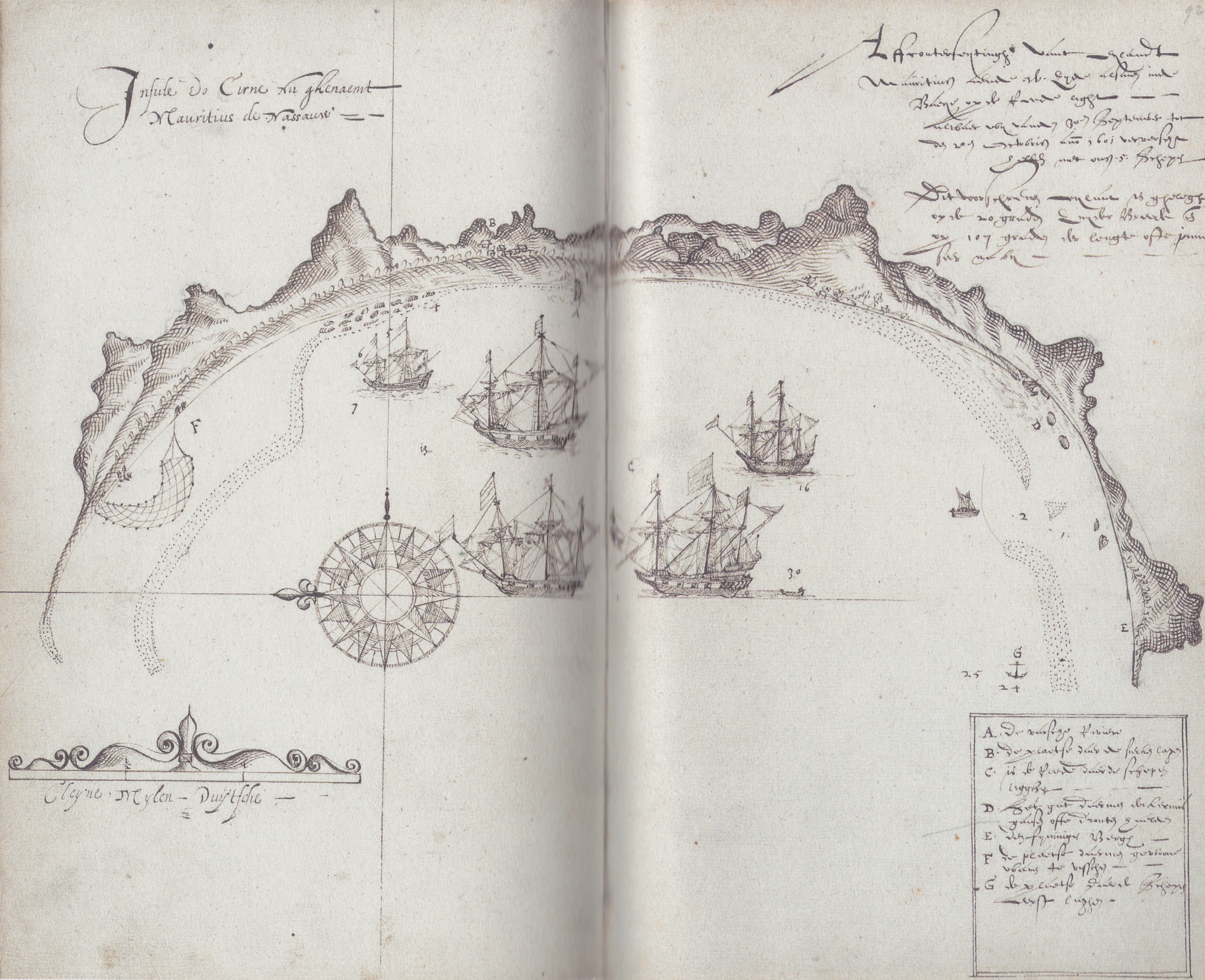 Map from the journal of the Dutch ship 'Gelderland'. It shows the bay in the southwest of Mauritius. In old Dutch it says: "Insulde do Cirne nu ghenaemt Mauritius de Nassauw [=Insulde do Cirne now named Mauritius the Nassau]" and "Affconterfeytinghe vant eylant Mauritius aende w. zyde alsmen inde baye opde reede light [= Representation of the island Mauritius at the west side if you lie in the bay's roadsted], alwaer wy vanden 30en september tot den 20en octobris anno 1601 ververscht hebben met onsen 5 schepen [= where we refreshed from 30 September to 20 October 1601 with our 5 ships]. Dit voorschreven eylant is ghelegen op de 20 graden zuyder breedt ende op 107 graden der lengte ofte janner (?) seer naby [= This forementioned island is situated at a latitude of 20 degree South and at 107 degree of longitude of the Janner?? very close by]" and "A. De varsche rivier [= The fresh river], B. De plaetse daer de siecken lagen [= The place where the sick lay], C. Is de reede daer de schepen ligghen [= Is the roadstead where the ships remained], D. Het gat daermen de Kermisgansen ofte Dronten haelden [= The spot where they got the dodo's], E. Den fyninigen bergh [= The fierce mountain], F. De plaetse daermen gewoone waren te visschen [= The place where they usually fished], G. De plaetse daer de schepen eerst laghen [= The place where the ships anchored first]".